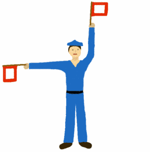 Letter P of the nautical semaphore flag signalling system Source: Martin Hawlisch (User:LosHawlos) My own drawing done in gimp First uploaded to de: in jun-2004